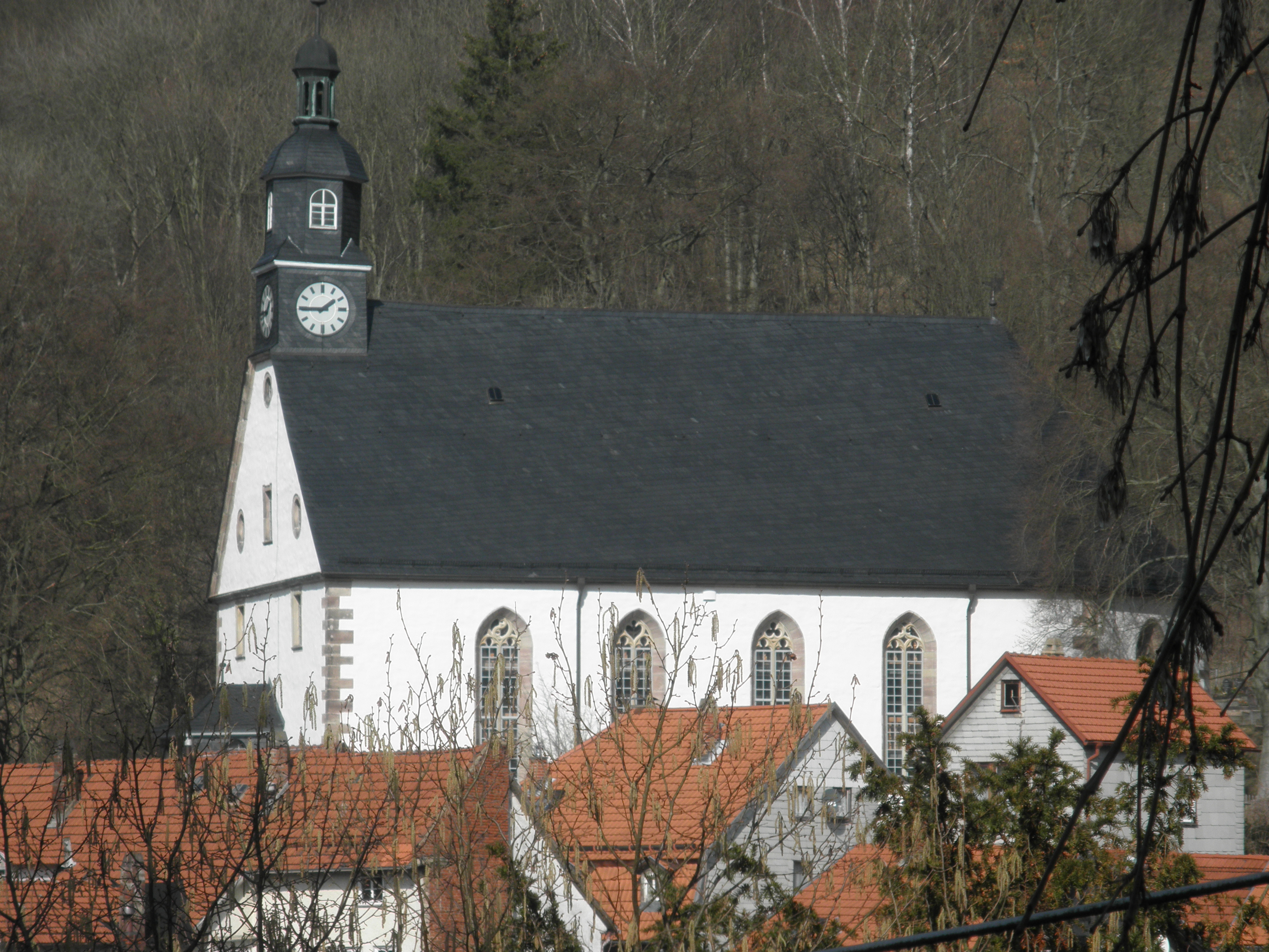 Church St. Trinitatis in Ruhla in Thuringia